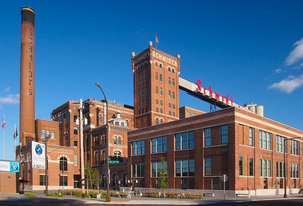 Schmidt Artist Lofts, 882 W 7th St, St Paul, Minnesota, USA. Viewed from the northwest.